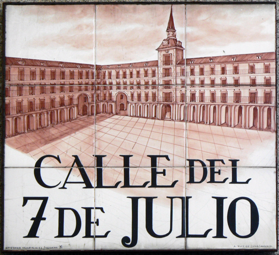 Sign of Calle del 7 de Julio (street, Centro district) in Madrid (Spain).